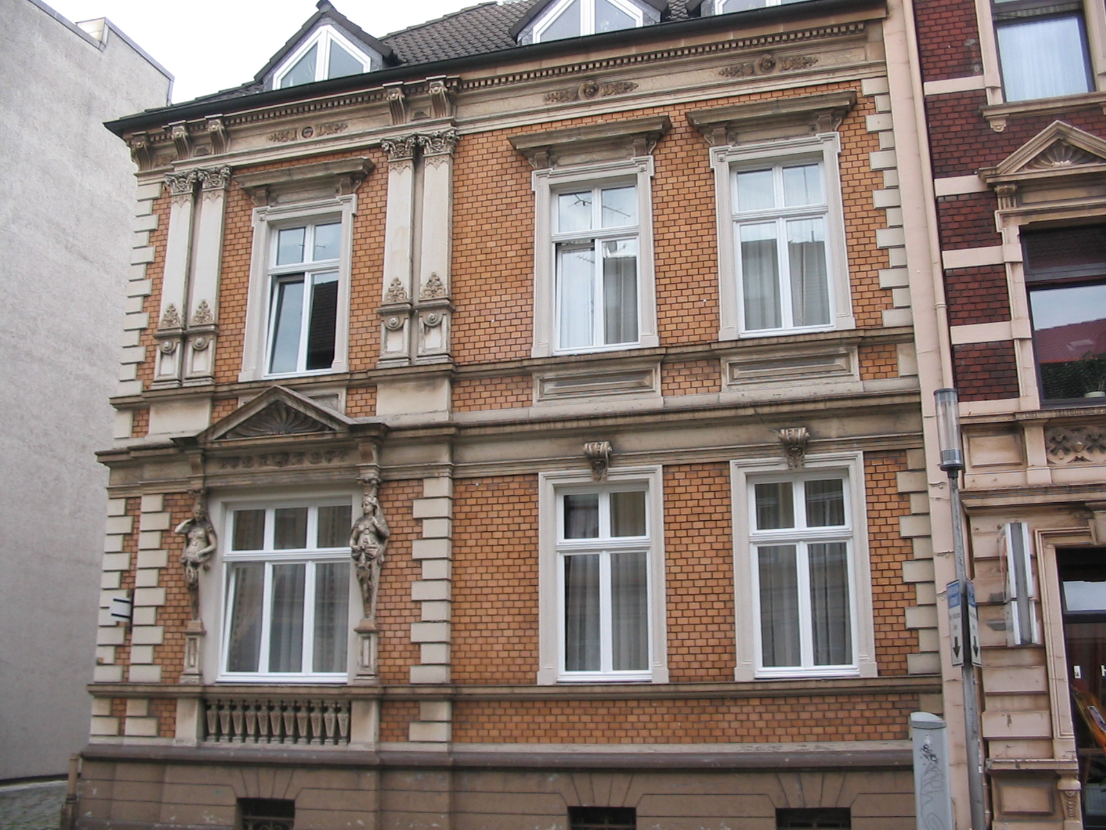 house Steinstraße 15 in Witten